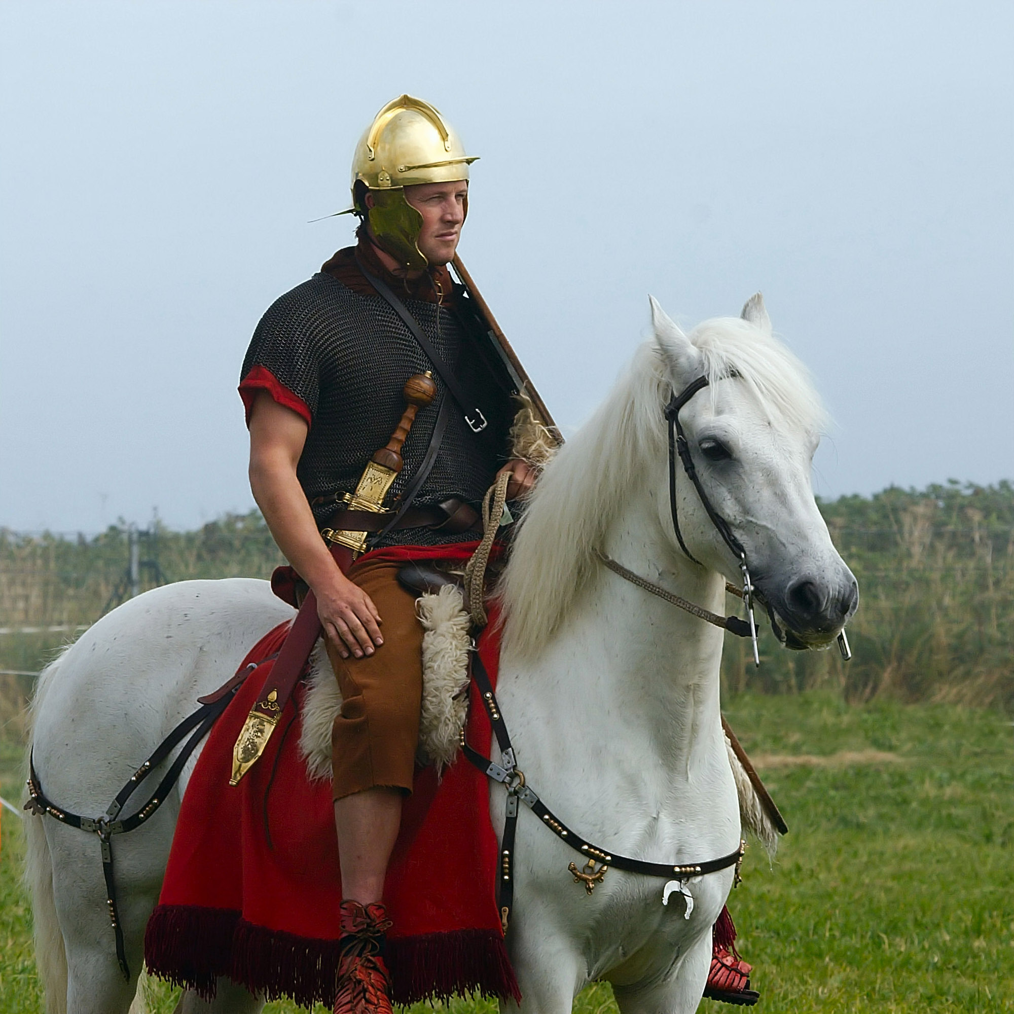 Image taken at the display of Roman Army. Tactics Scarborough Castle UK Aug-07. The Spatha was one of the main swords of Imperial Rome, mainly used by the Cavalry.